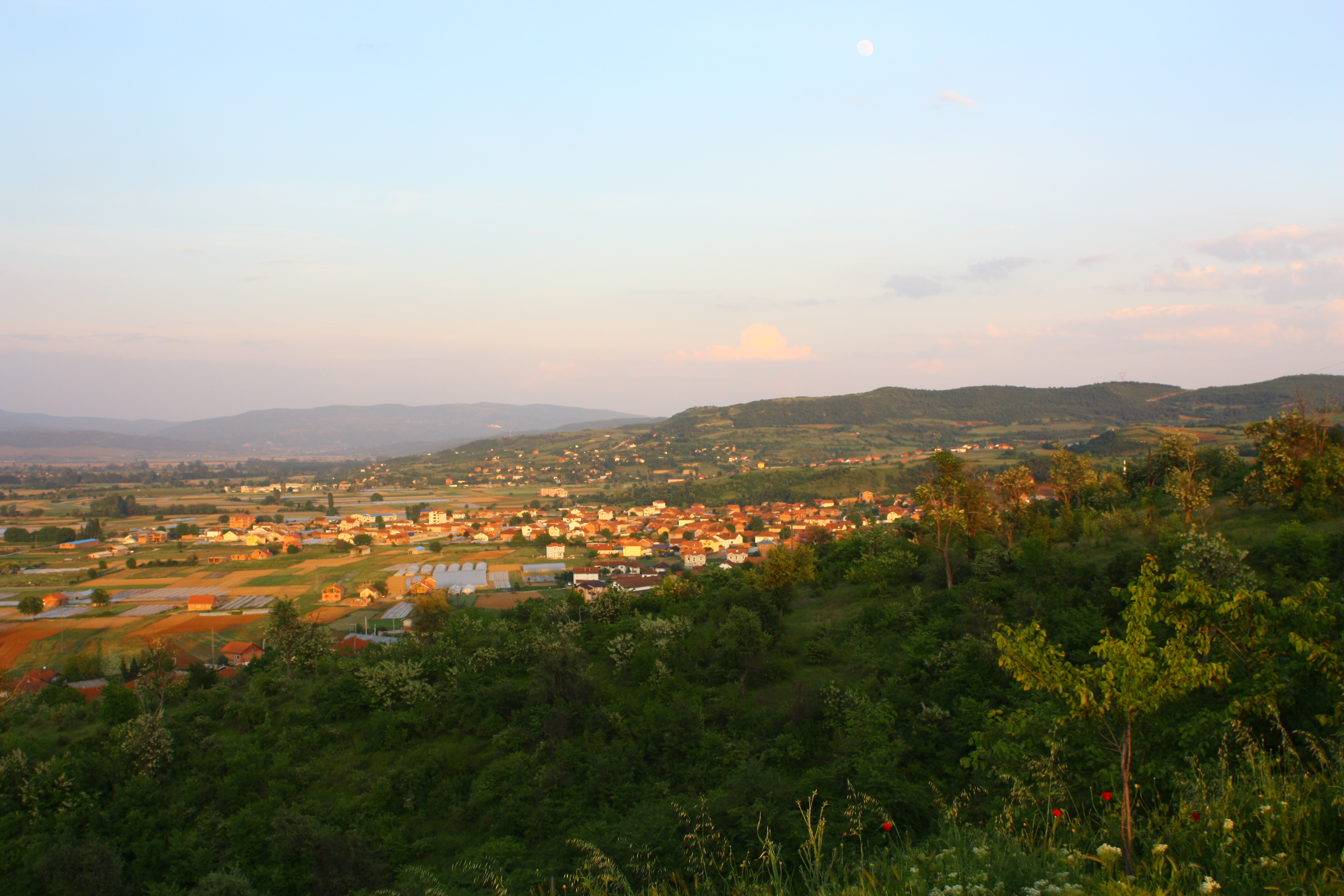 Tri Kruši Place in Dračevo, Macedonia